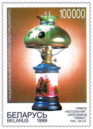 Stamp of Belarus